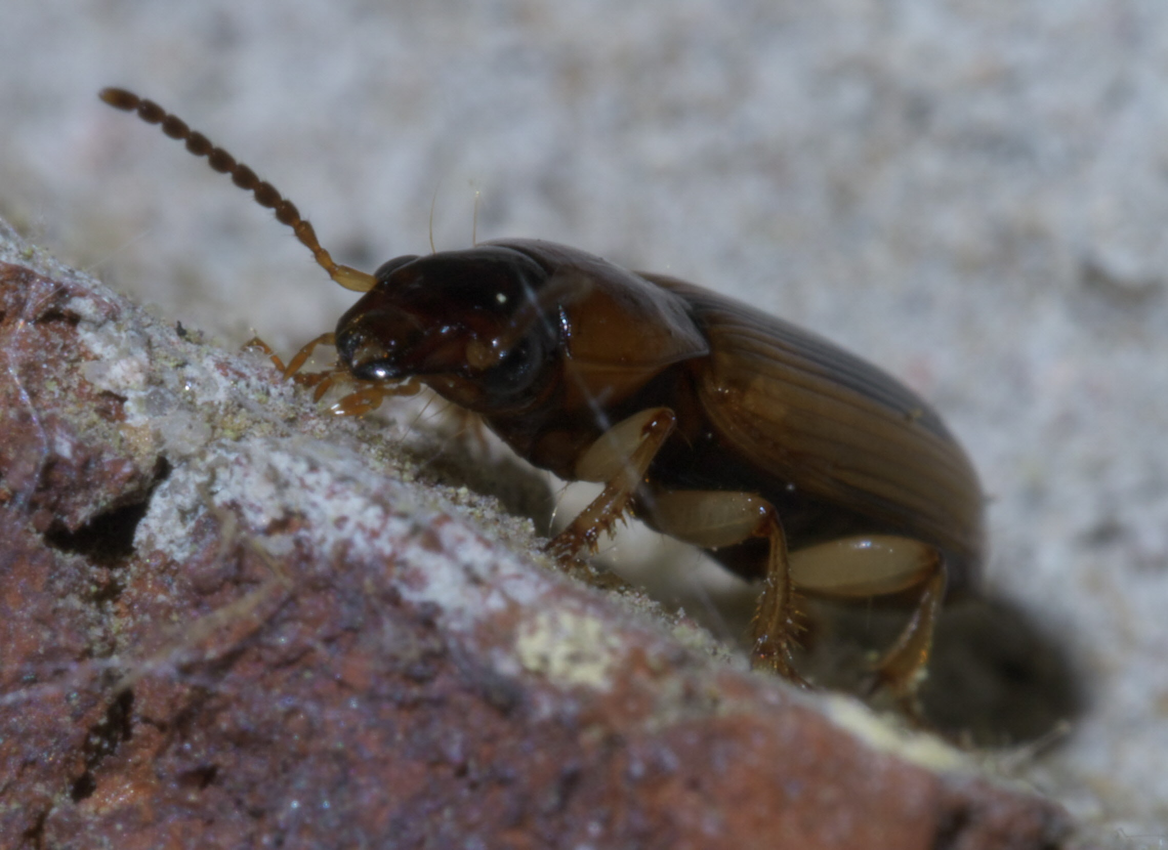 Stenolophus lecontei, LeConte's Seedcorn Beetle, ID Confidence: 88